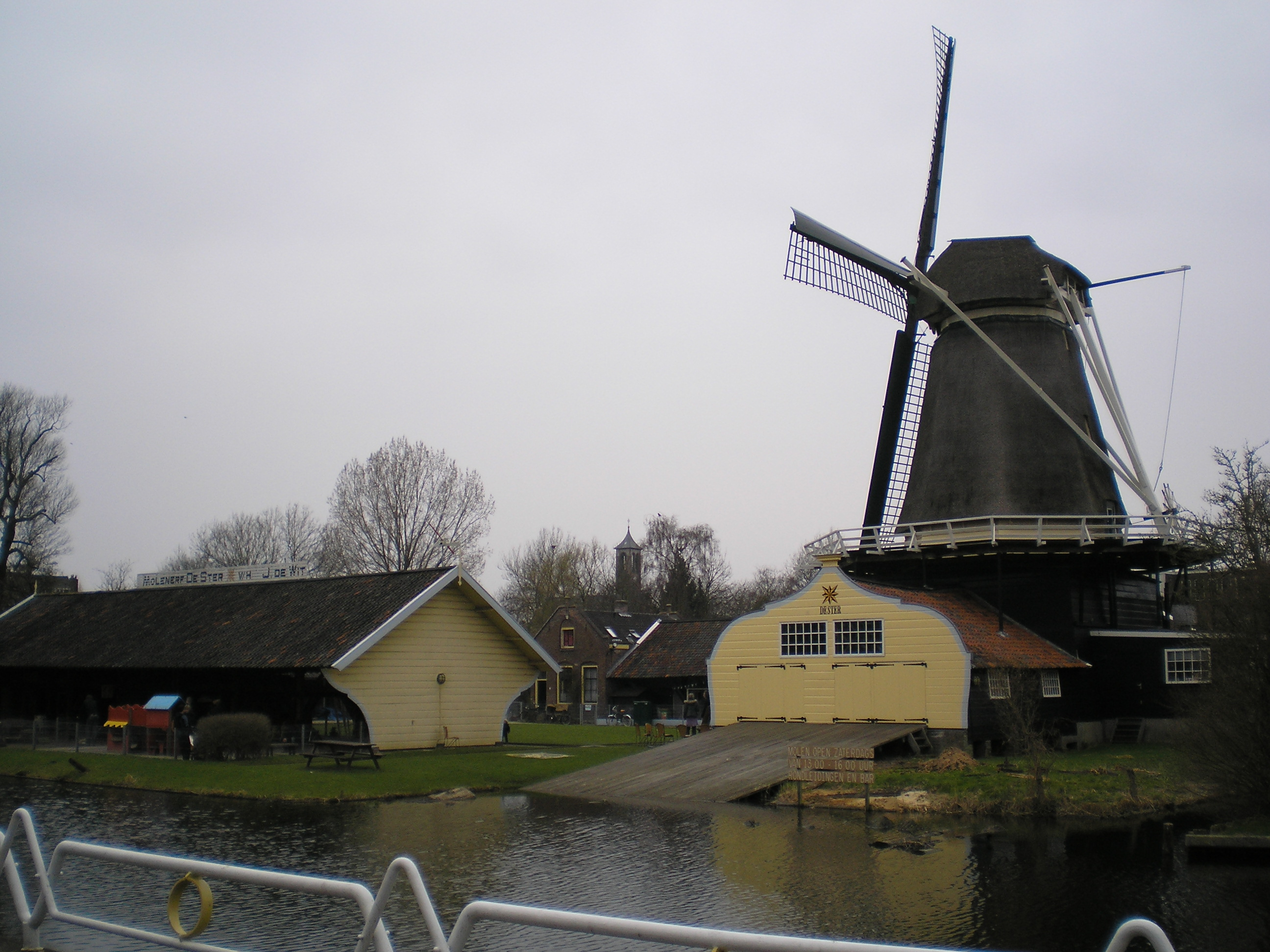 Wood sawmill the Ster in Utrecht in the Netherlands